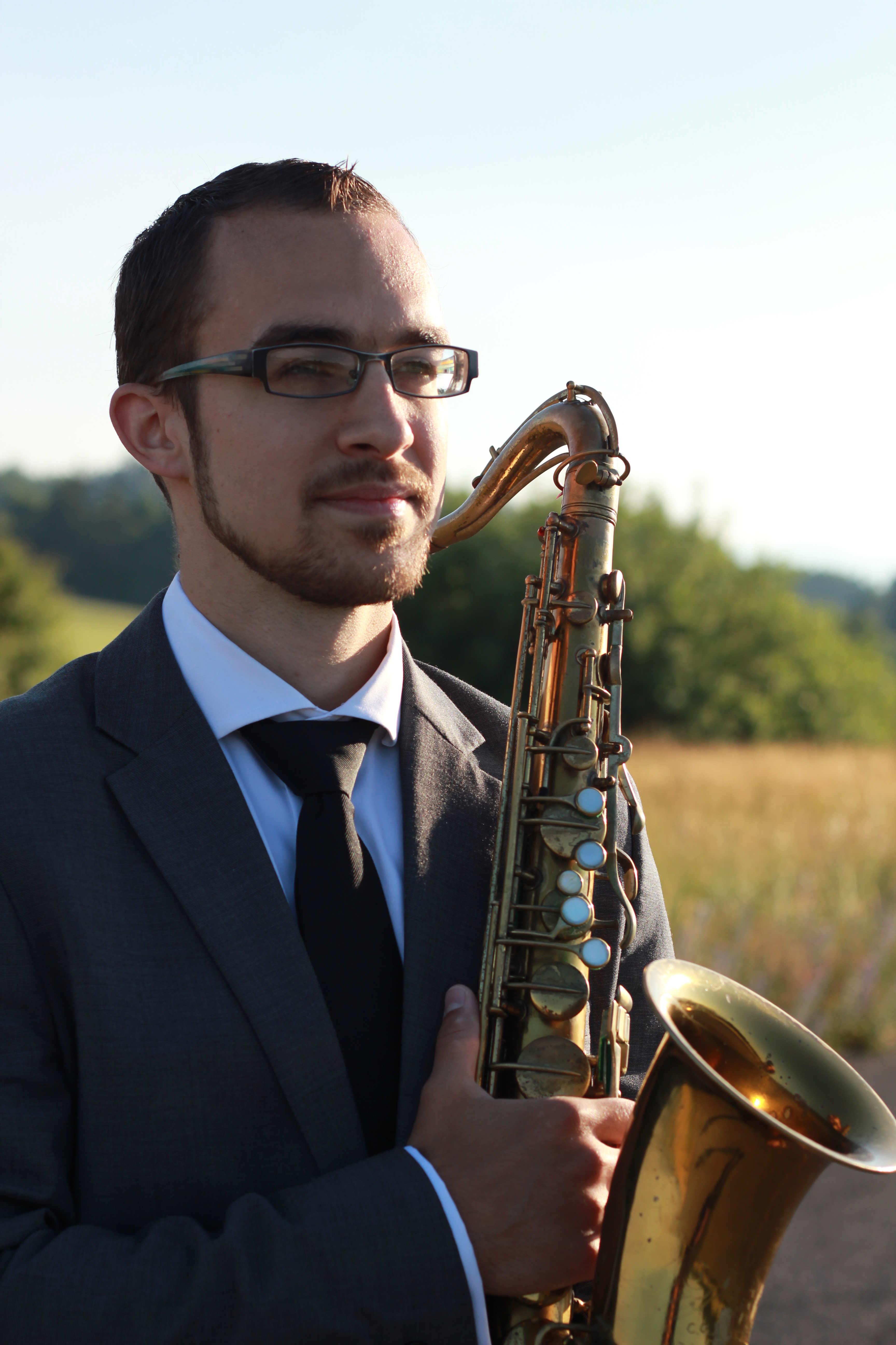 Martin Uherek promo picture